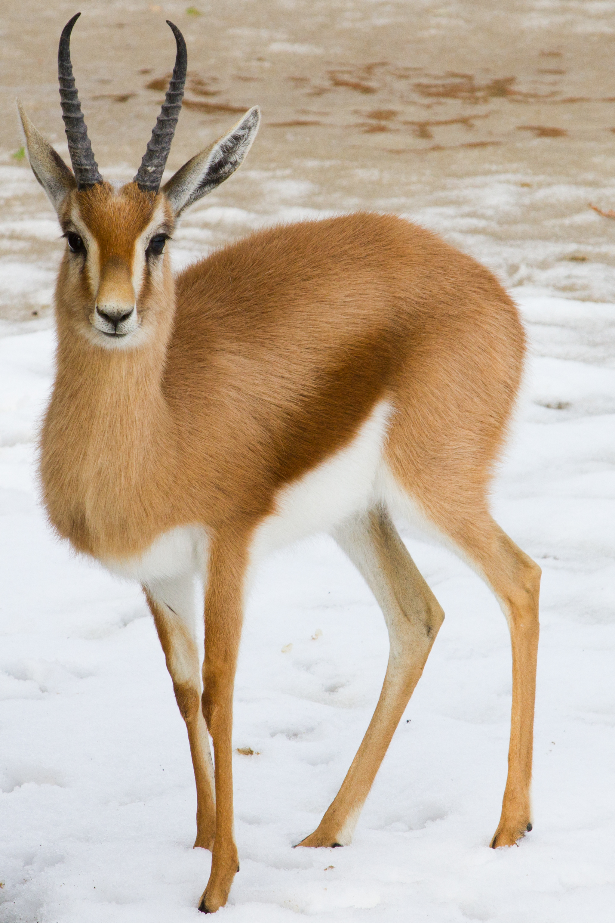 Dorcas Gazelle at Marwell Wildlife